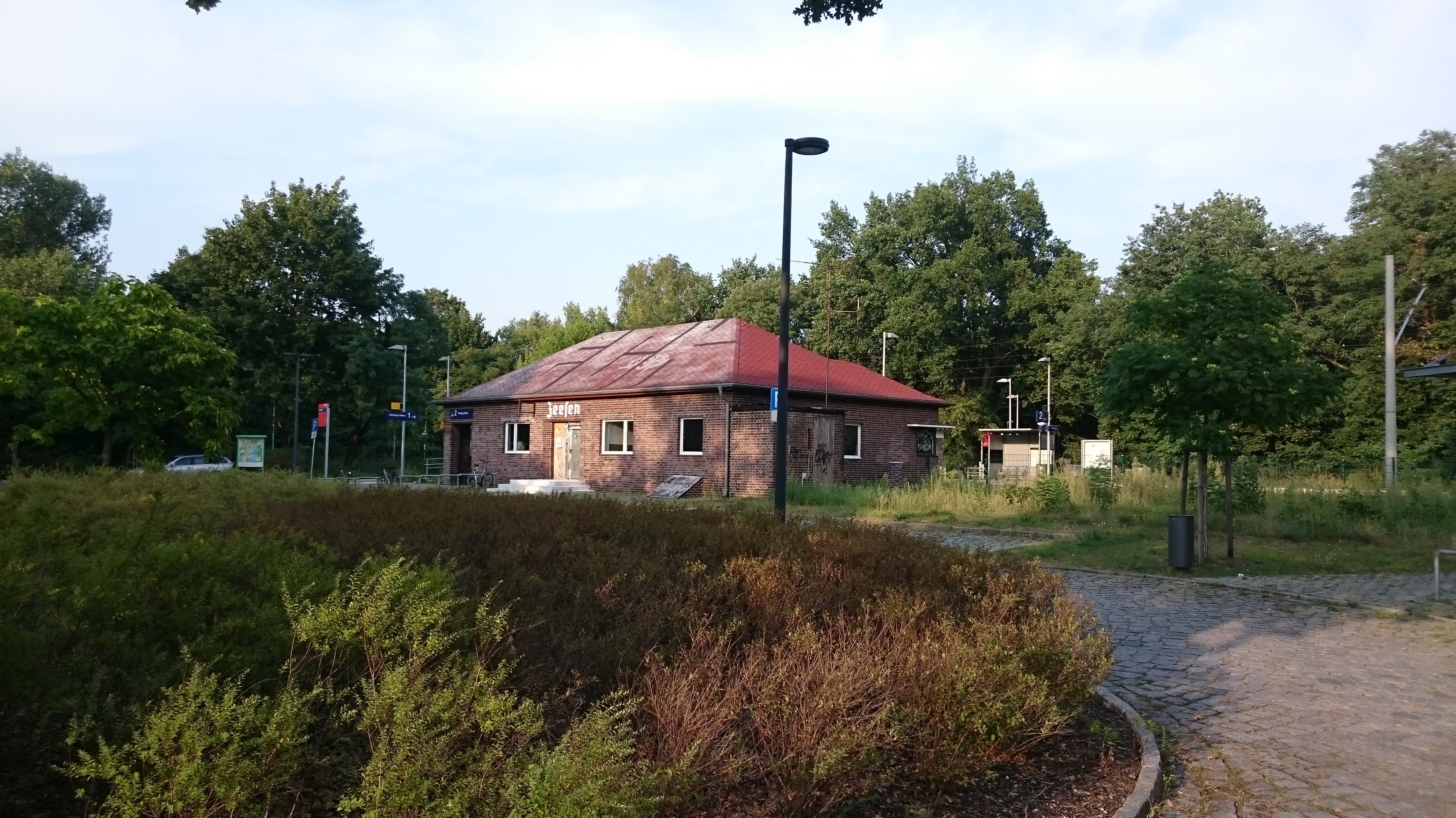 Train station Zeesen near Koenigs Wusterhausen in August 2015.